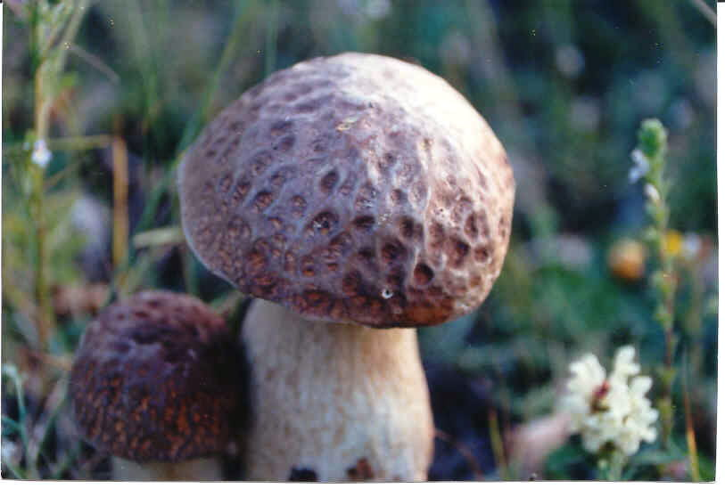 Boletus edulis